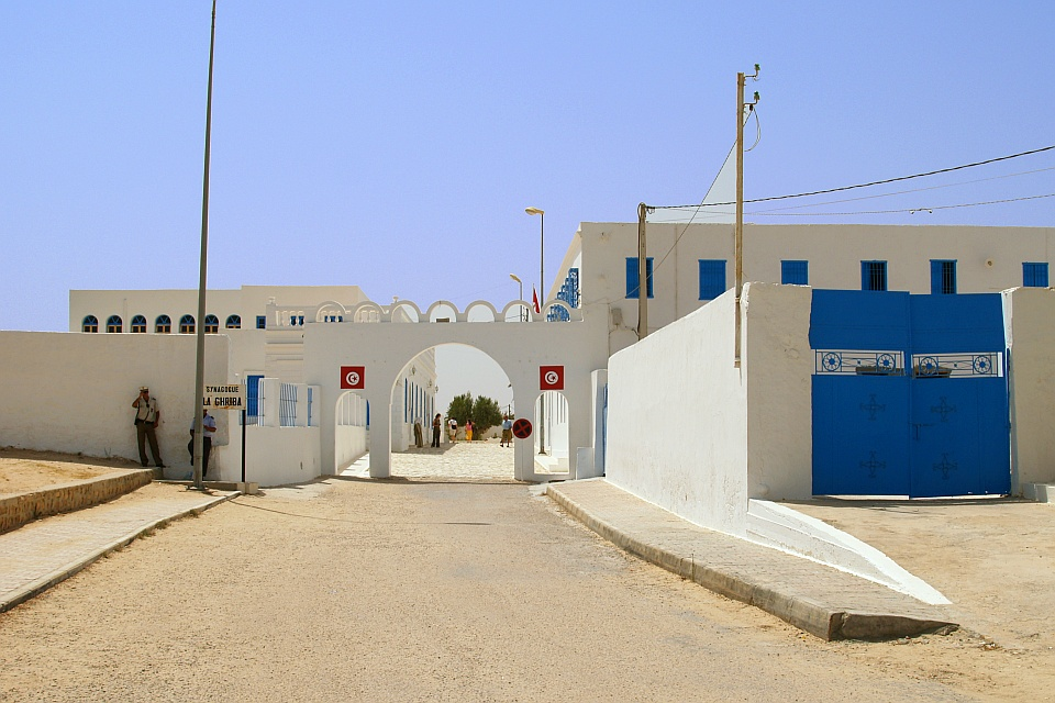 El Ghriba Synagogue